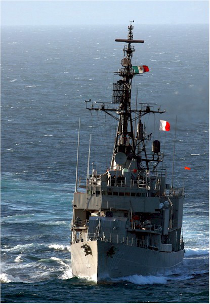 Pacific Ocean, June 21 2005, the Mexican Navy destroyer ARM Netzahualcoyotl (D-102), ex-USS Steinaker (DD-863). U.S. Navy photo by Photographer's Mate Airman Apprentice Christopher D. Blachly